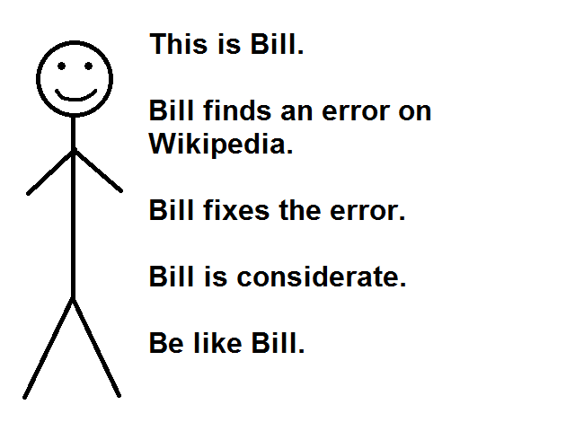 An example of the "Be like Bill" meme, featuring a stick figure and the text "This is Bill. Bill finds an error on Wikipedia. Bill fixes the error. Bill is considerate. Be like Bill."